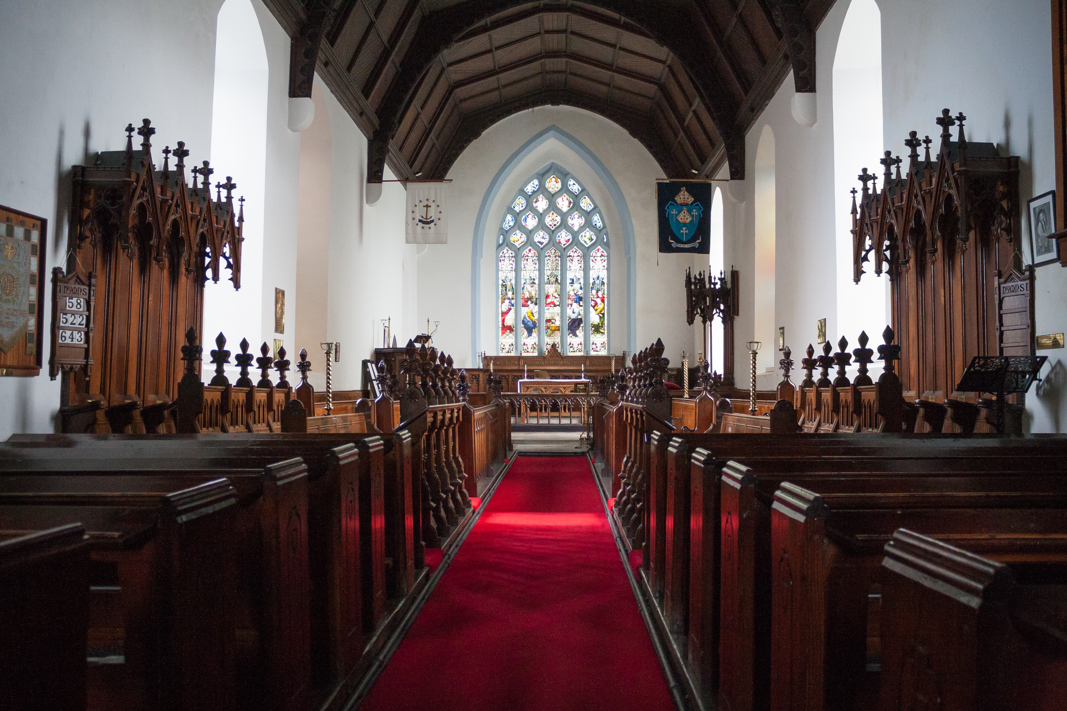 Choir, looking east.